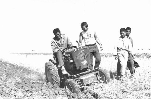 Caption: 1965. Self-Helper tractors are available to area farmers in the agricultural program at Henchir, Algeria. Here PAX volunteer Duane Miller gives operating instructions to a national. Citation: Mennonite Board of Missions. Photographs. Algeria, 1963-1965. IV-10-7.2 Box 1 Folder 26, Photo #8. Mennonite Church USA Archives - Goshen. Goshen, Indiana.